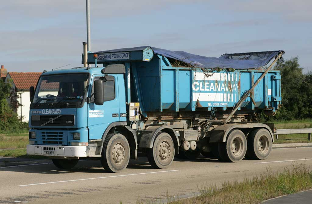 CLEANAWAY